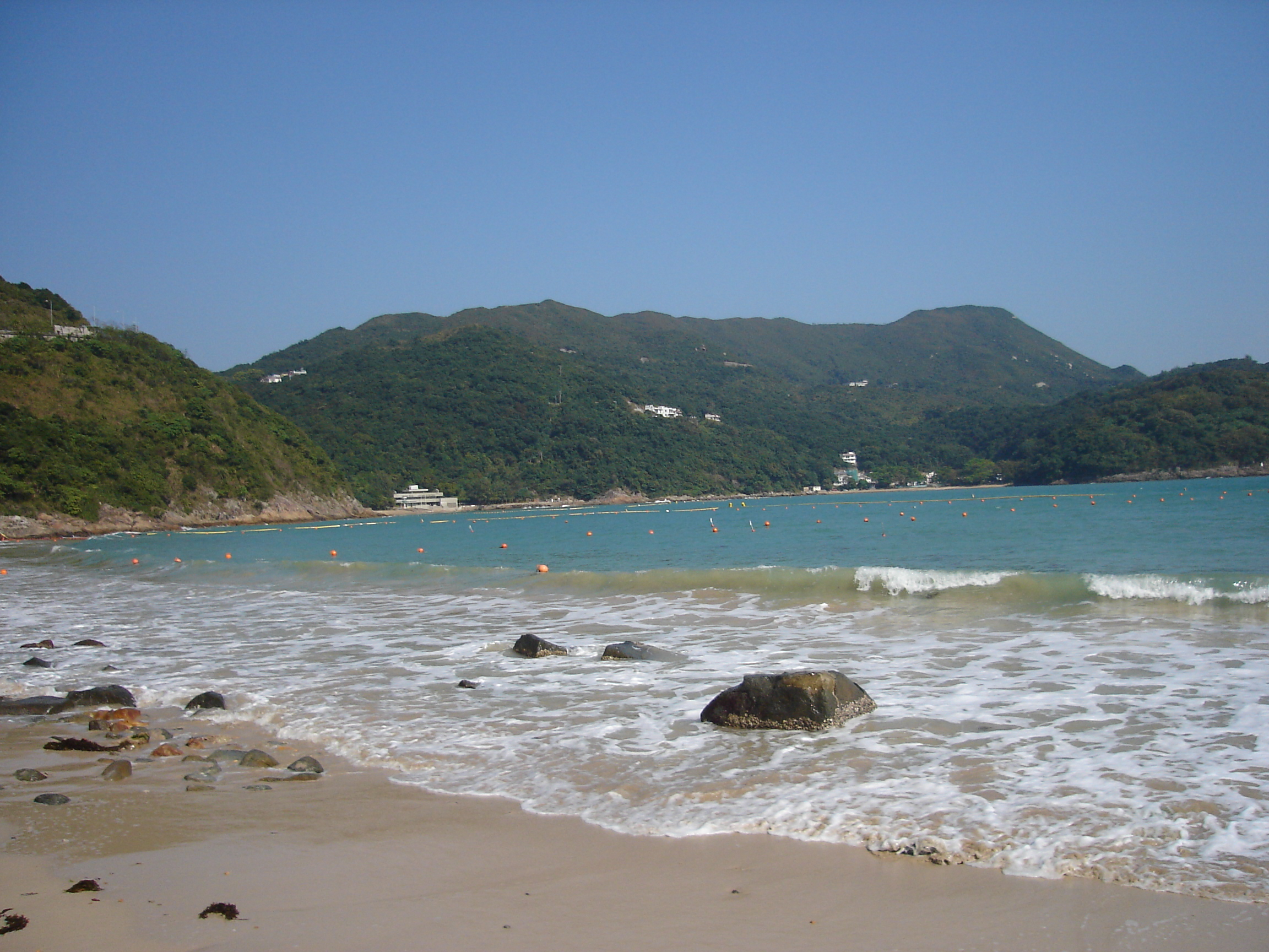 Taken by user:Ngchikit on 23 Dec 2006.